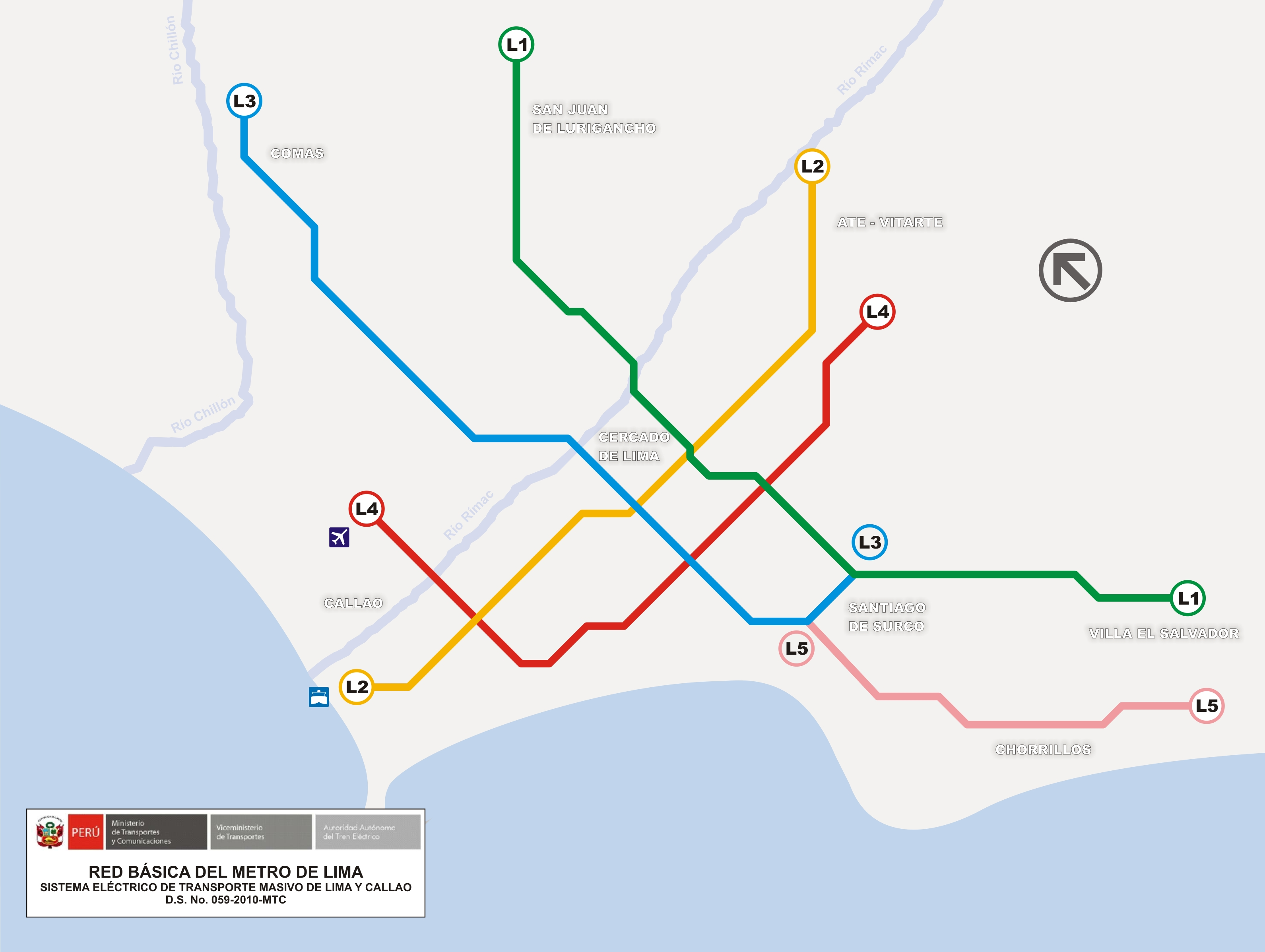 BASIC NETWORK FOR METRO OF LIMA (D.S. No. 059-2010-MTC)